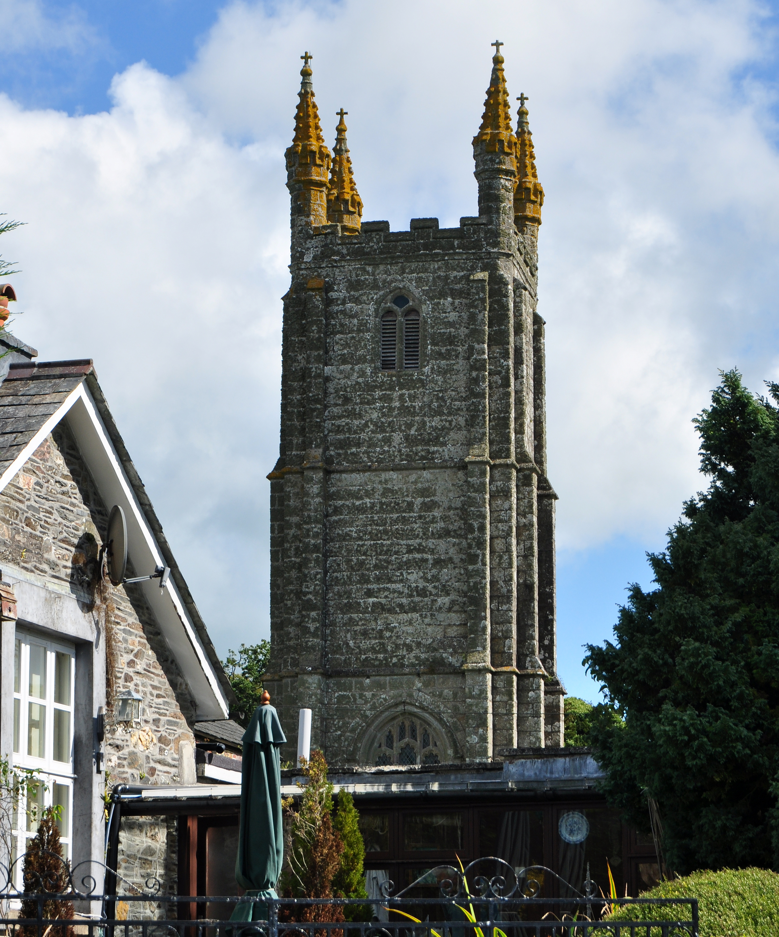 West tower of St Mary's parish church, Sydenham Damerel, Devon, seen from the west